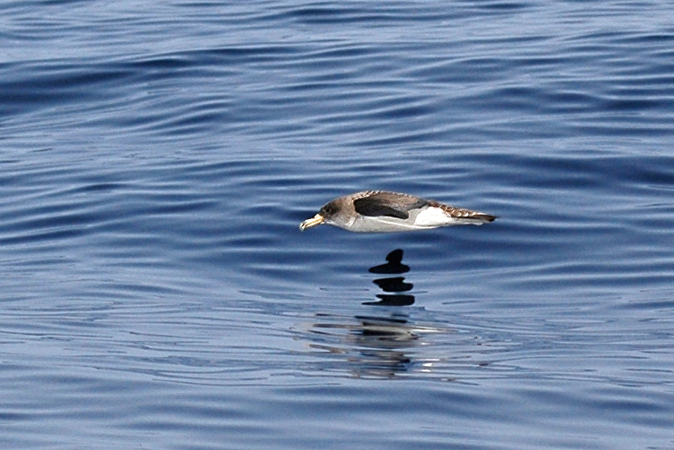 Cory's Shearwater Calonectris borealis at La Gomera, in flight, shortly before diving for fish